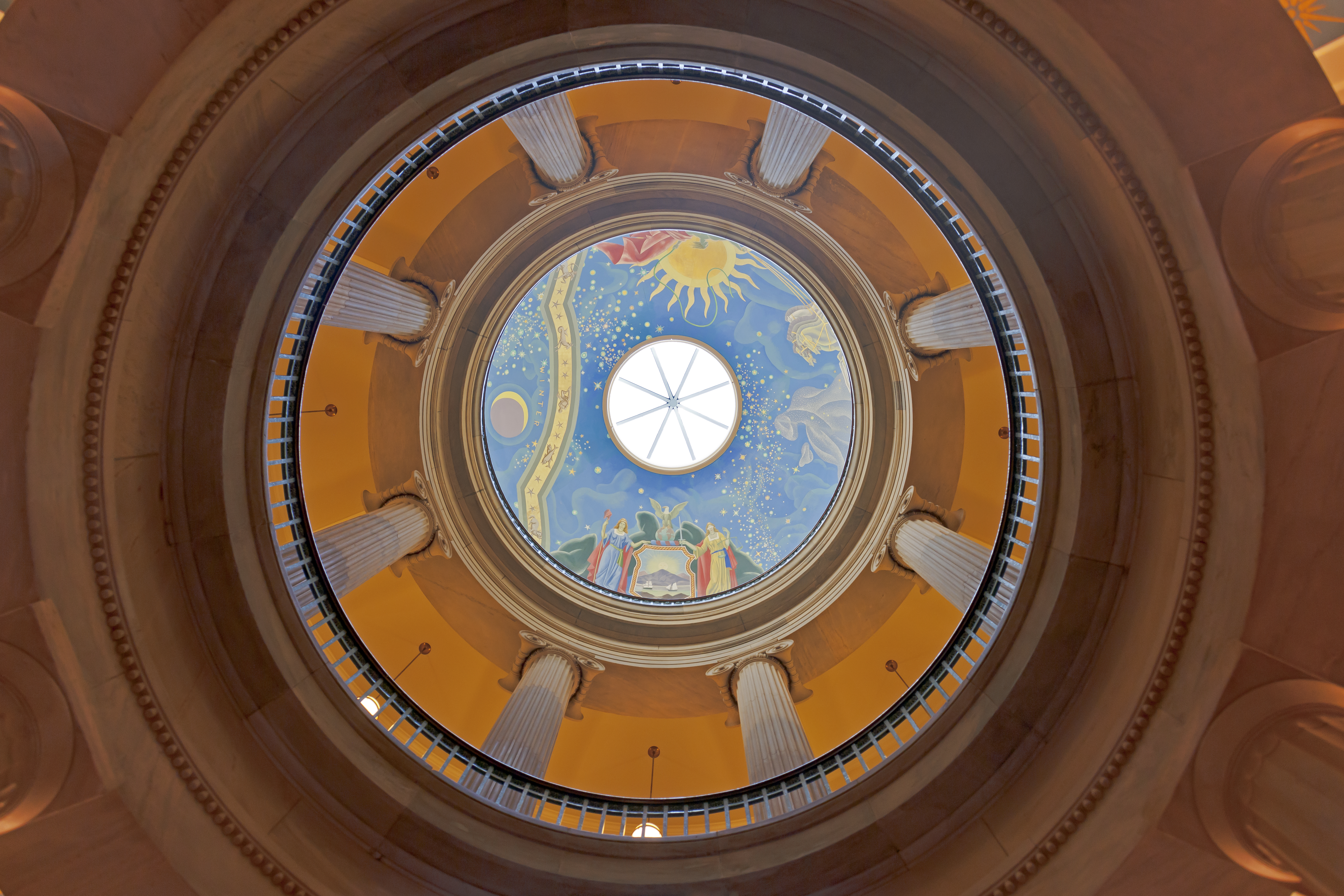 Interior of the dome in the New York State Court of Appeals Building|building in Albany. The columns use all three classical orders. At the top is The Romance of the Skies, a Eugene Savage mural.